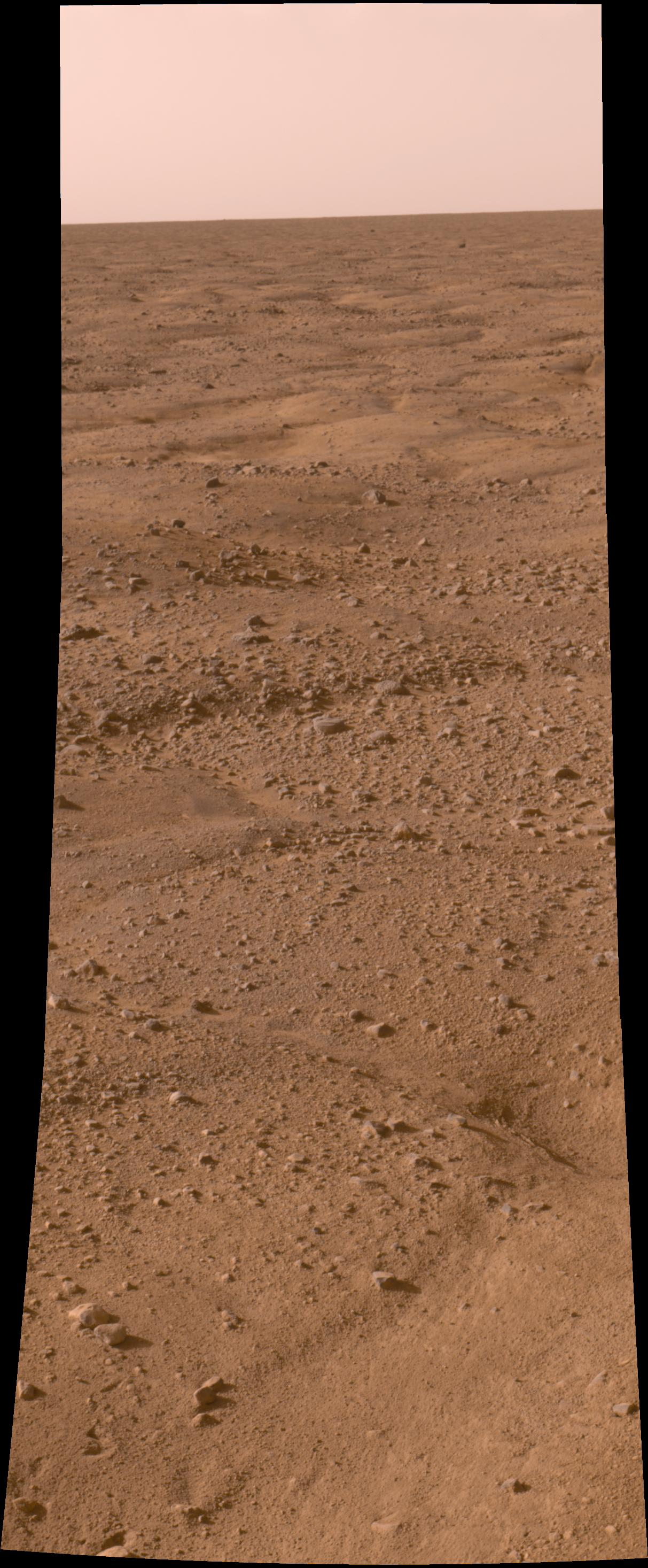 Phoenix mission horizon stitched.jpg